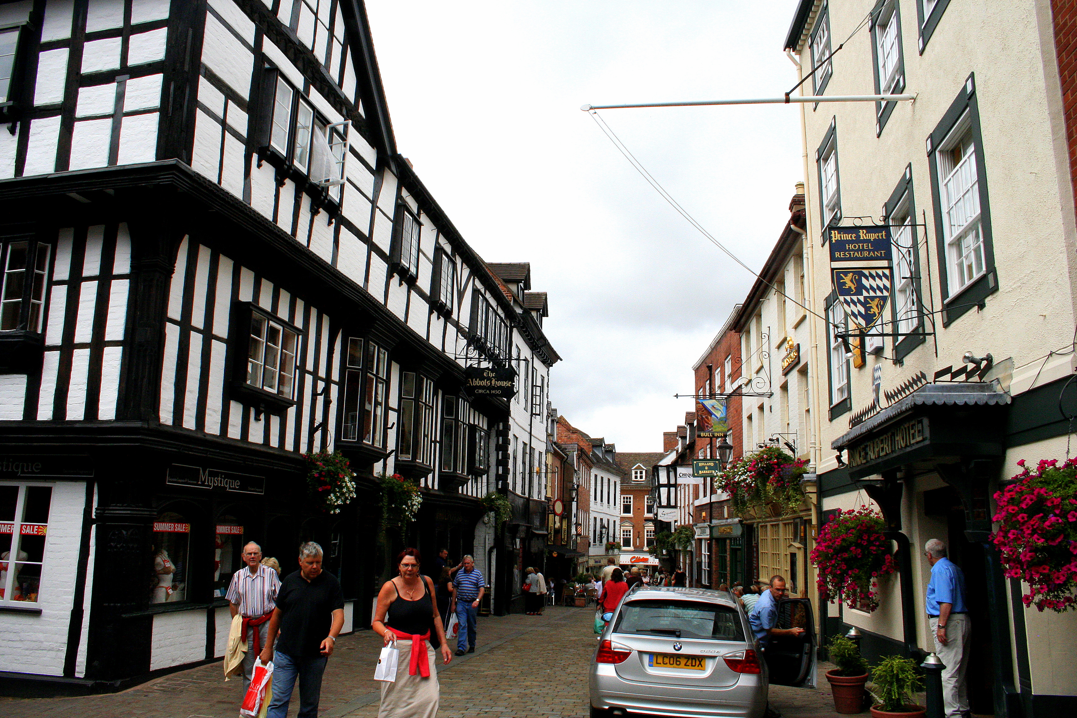 Butcher's Row, Shrewsbury, UK